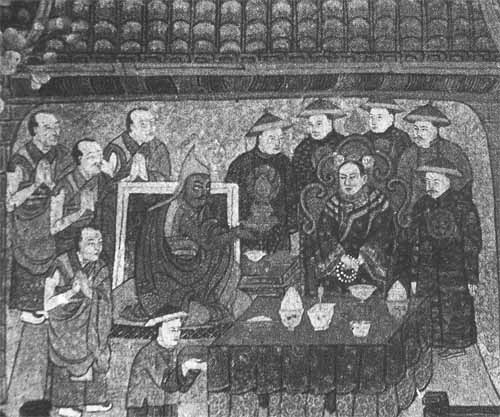 13th Dalai Lama of Tibet meeting with Empress Cixi of China